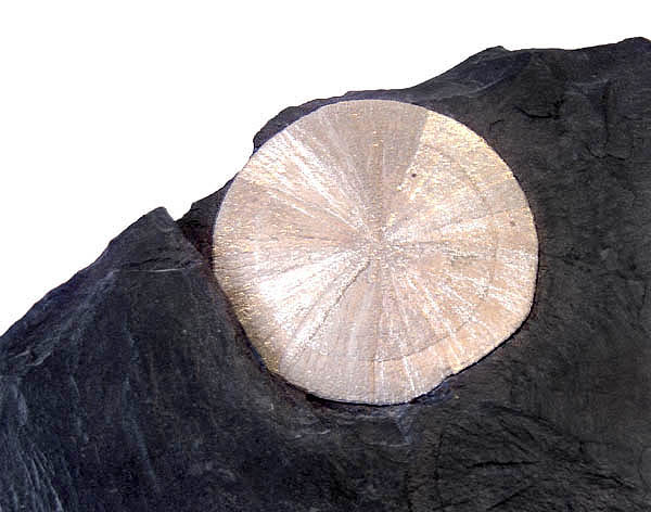 Pyrite sun (or dollar) in laminated shale matrix.